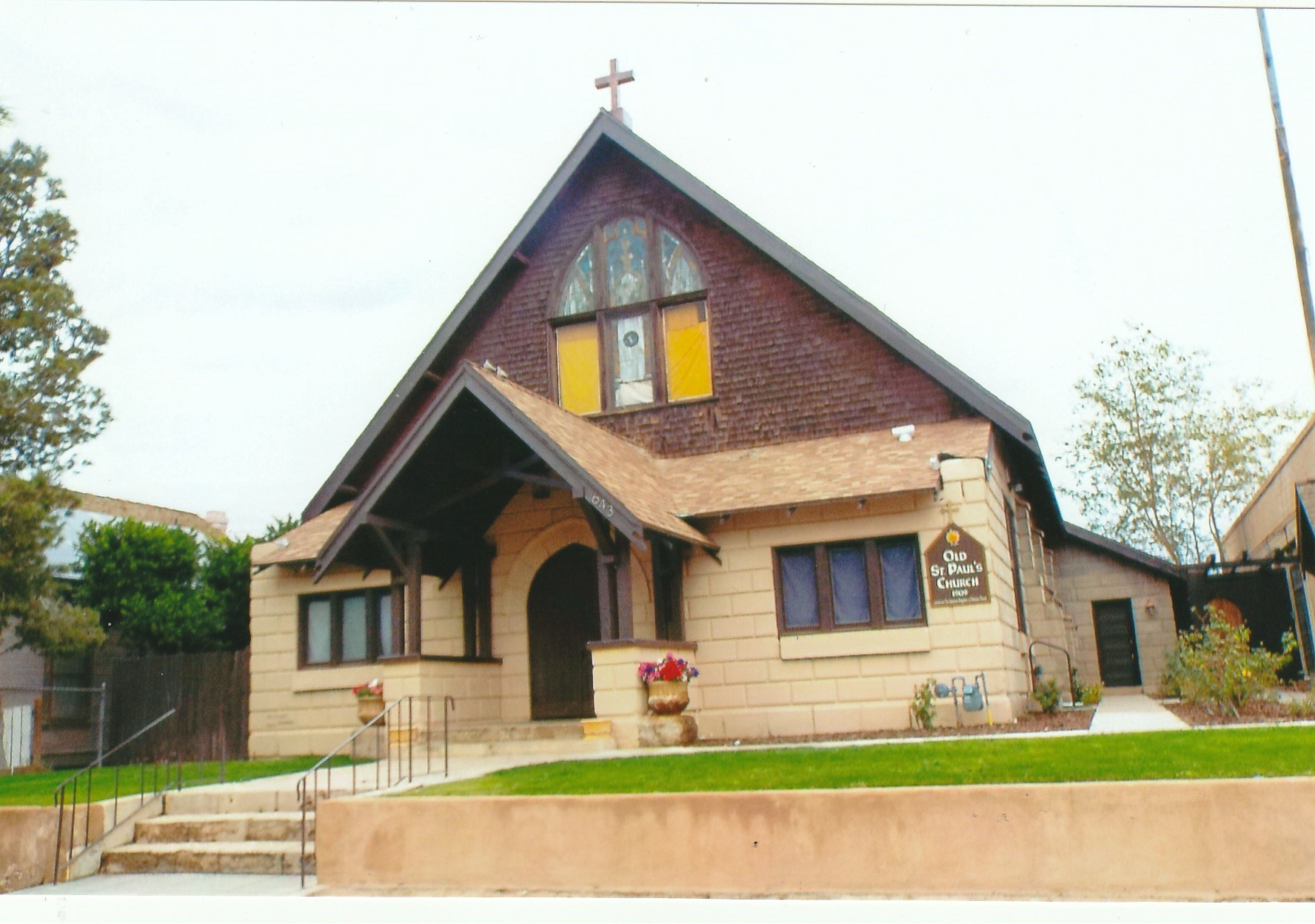 St. Paul’s Episcopal Church - located at 637 2nd Ave. was built in 1909 and listed in the National Register of Historic Places on December 7, 1982, reference #82001657.